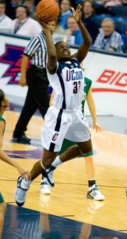 Barbara Turner versus Notre Dame 3-6-2006